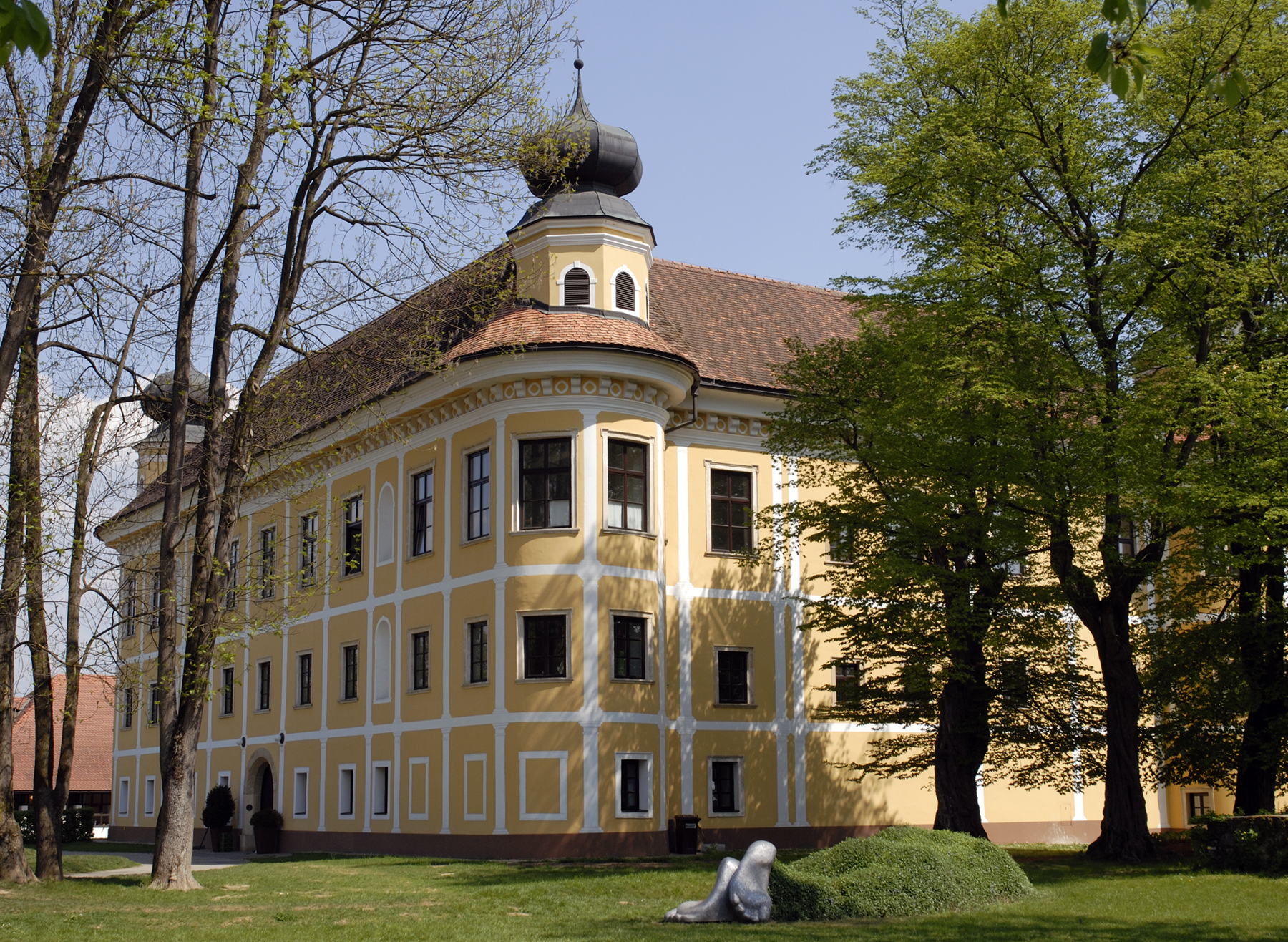 Castle in the center of Gleinstätten, Southern Styria, Austria; now serving as elementary school and public service institution